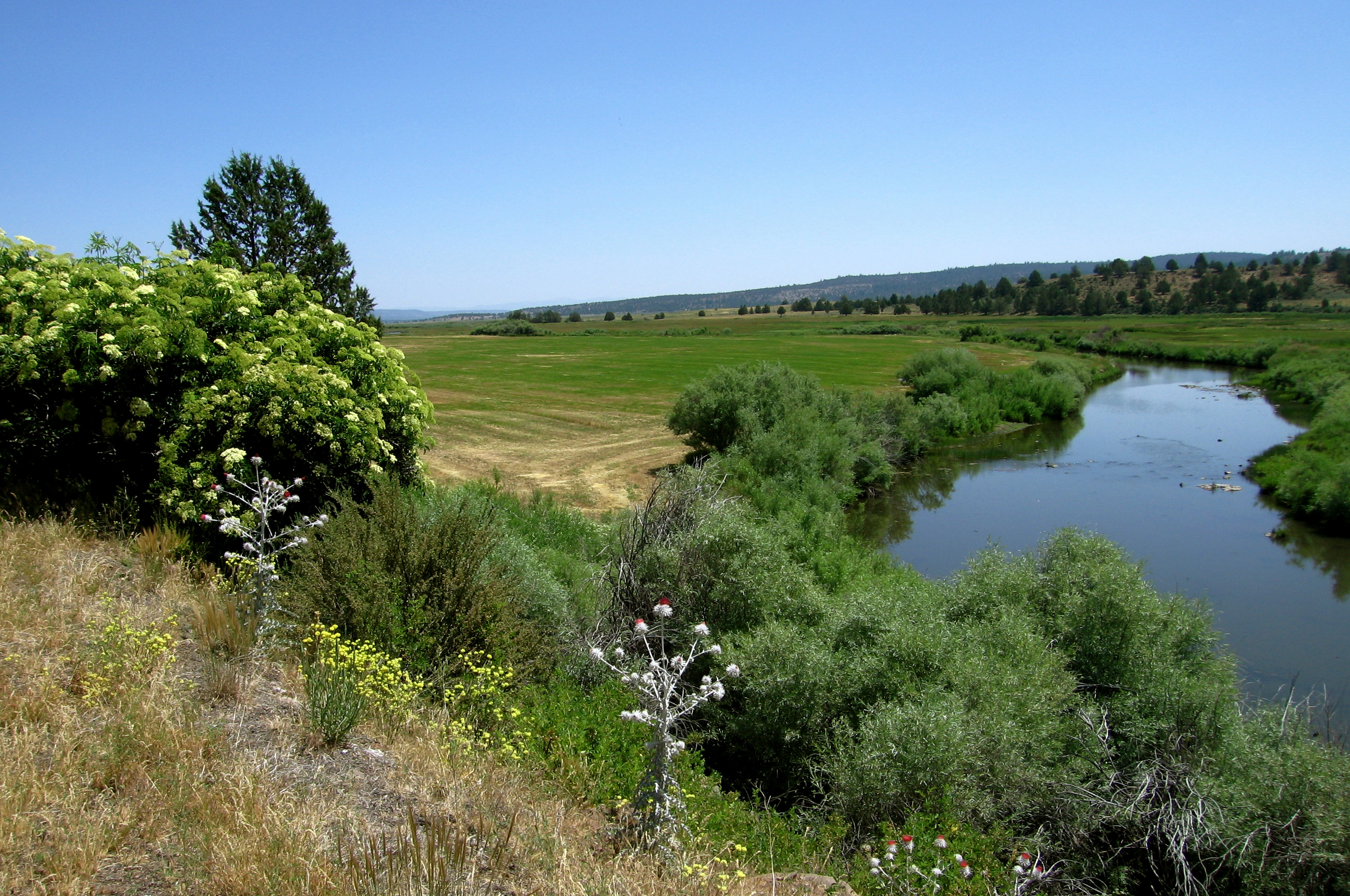 The upper Pit River and countryside, near Alturas, in Modoc County, Northeastern California.